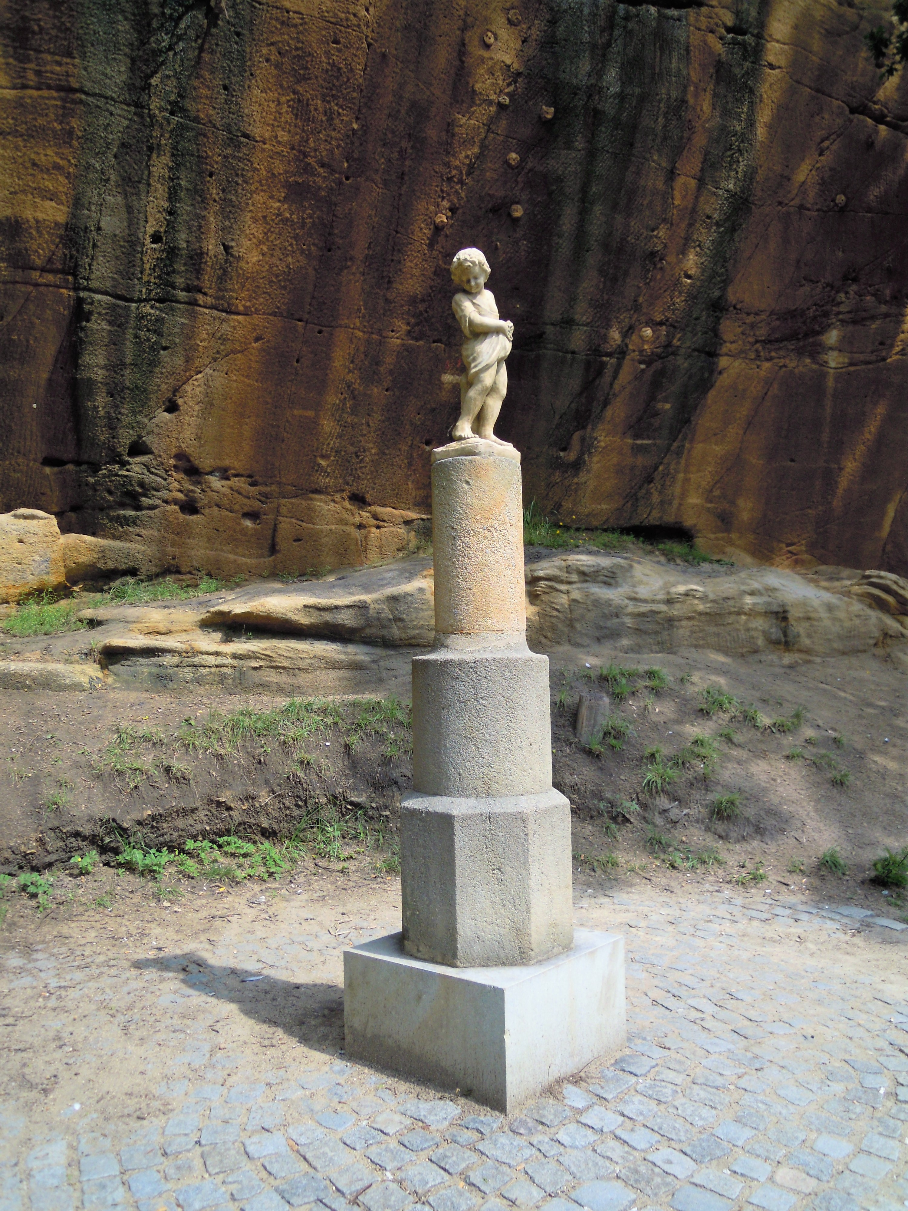 Košutka, Pilsen - Pond in the place of the defunct stone quarry